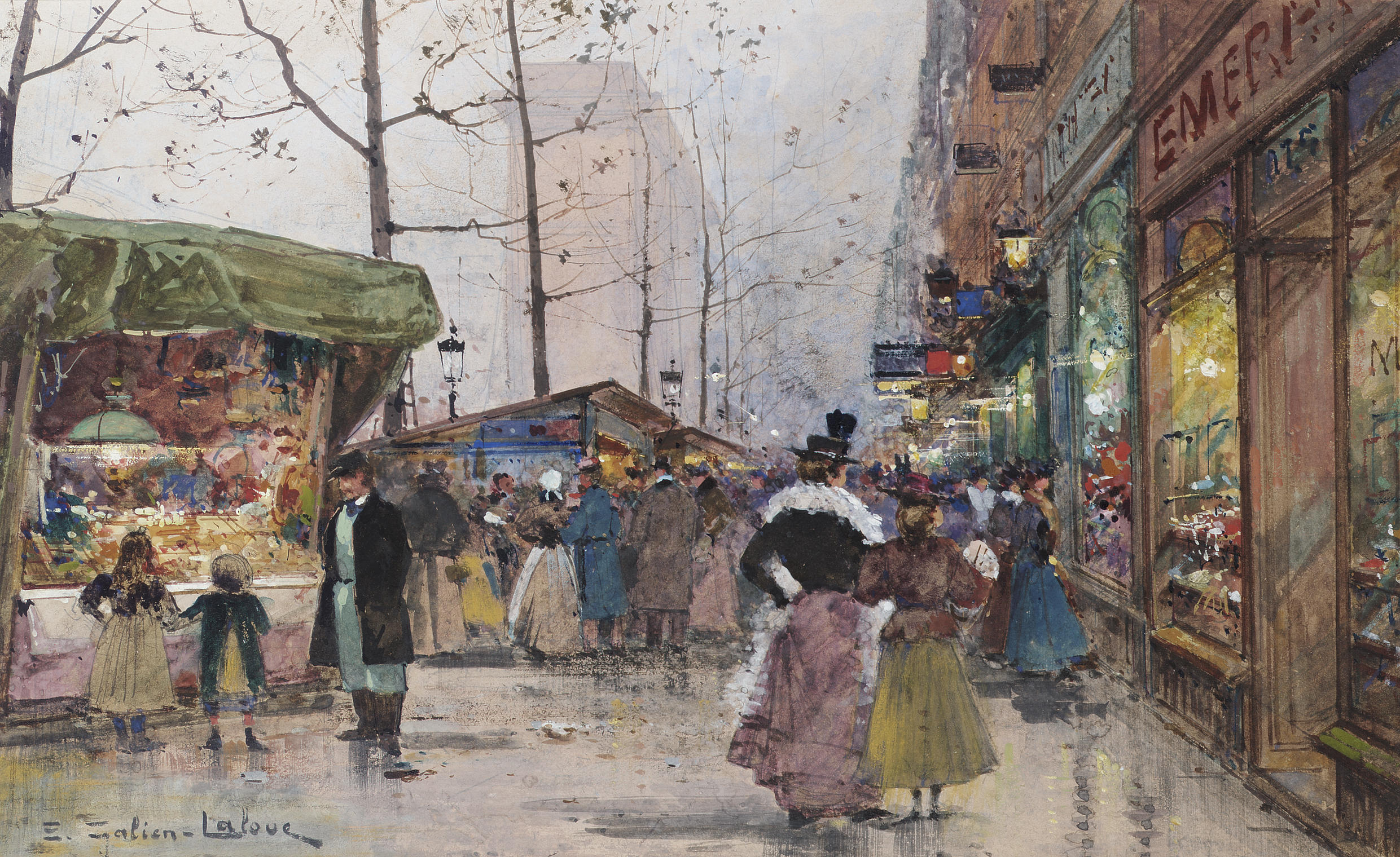 Paris, Porte Saint-Denis or possibly Porte Saint-Martin